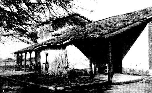 Posta de Yatasto, a National Historic Monument of Argentina.